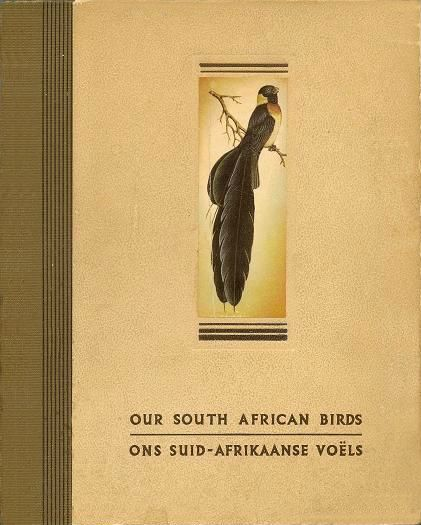 Cover of "Our South African Birds" depicting Broad-tailed Paradise-whydah